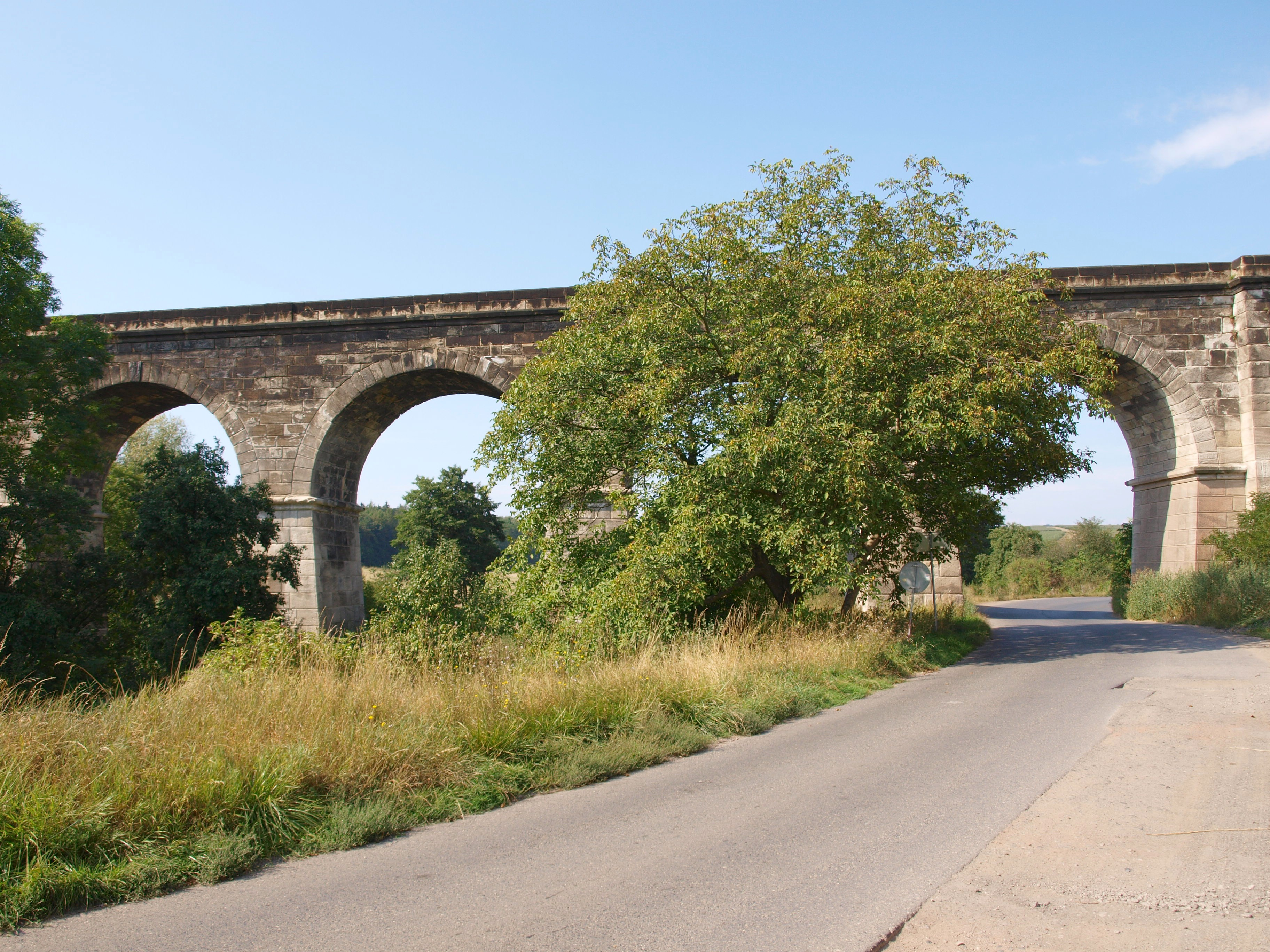 Viaduct on train track Kralupy – Slaný, Podlešín, Kladno District, Czech Republic